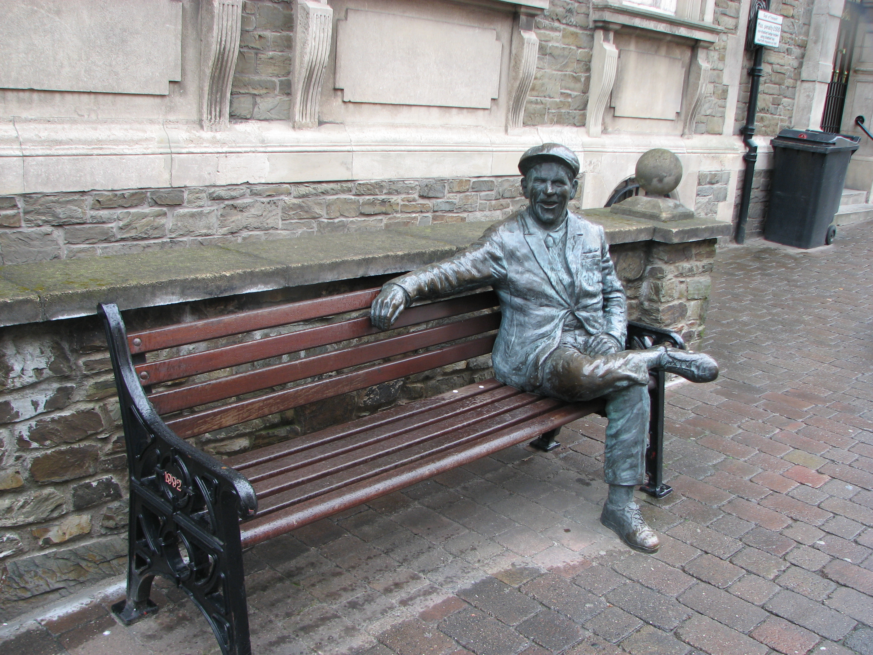 Statue of old man sitting on a bench, in a street of the city of Douglas, Isle of Man